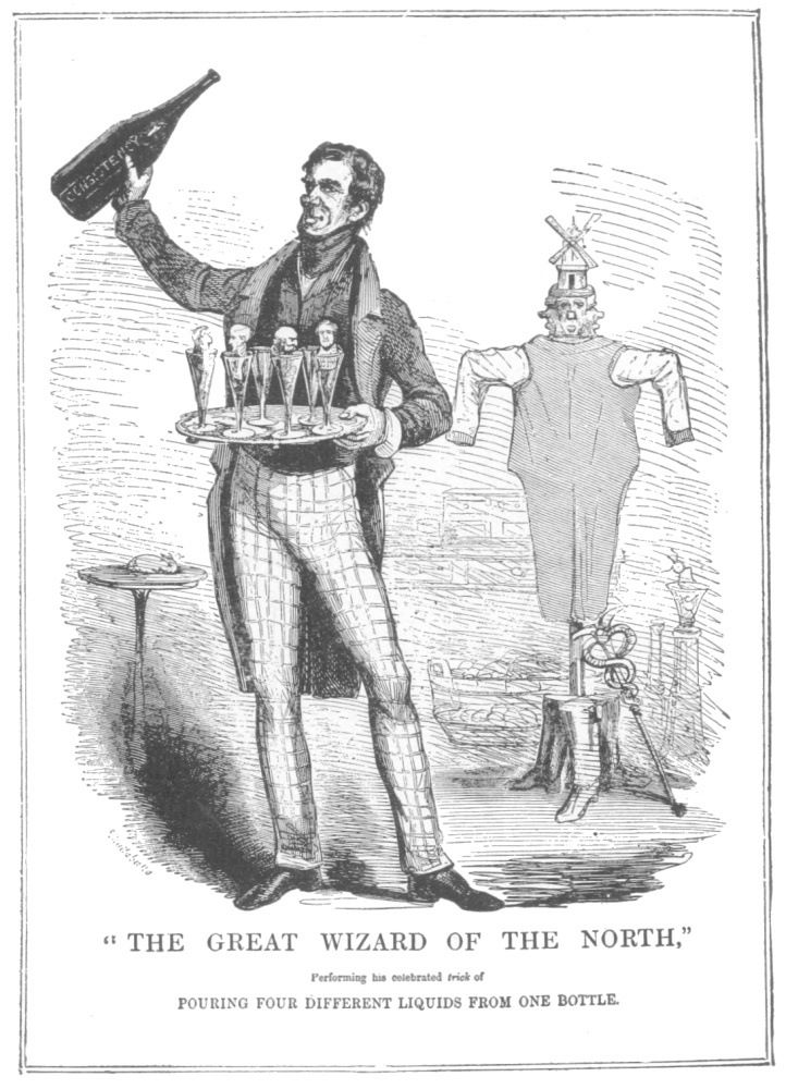 John Henry Anderson, the "Wizard of the North", performs the Inexhaustible Bottle trick on his playbill